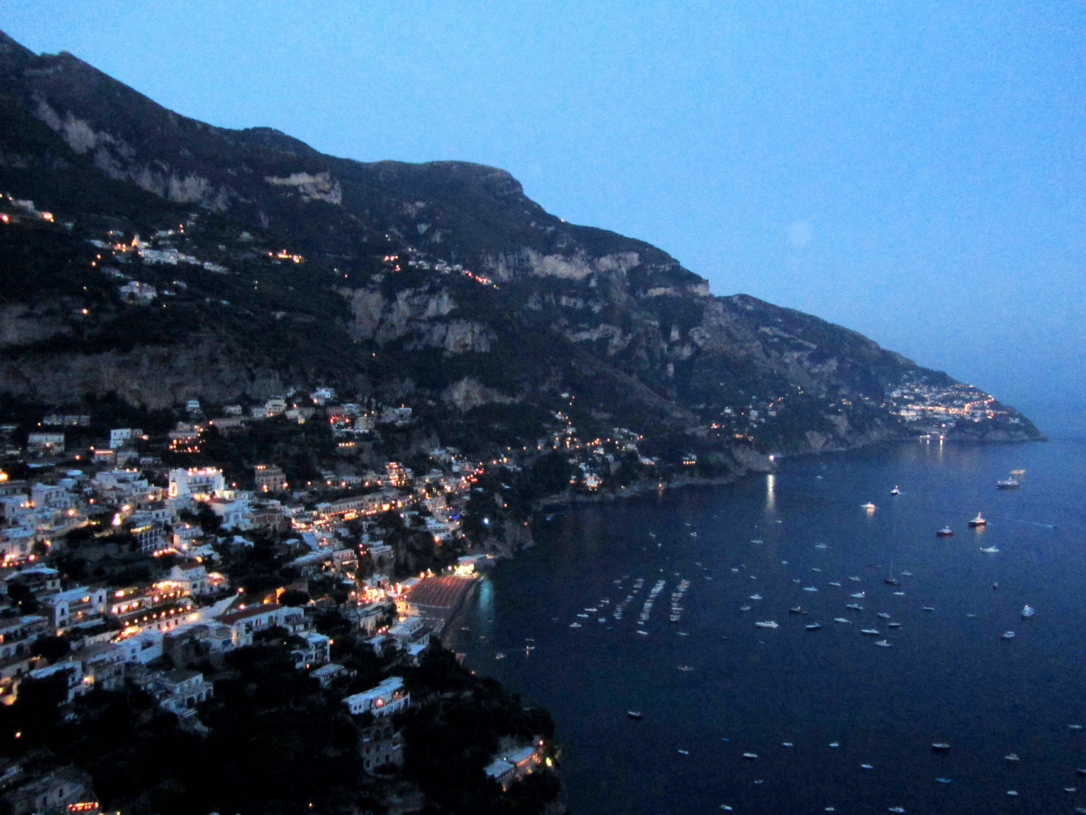 Amalfitan Coast - Views of Positano by night